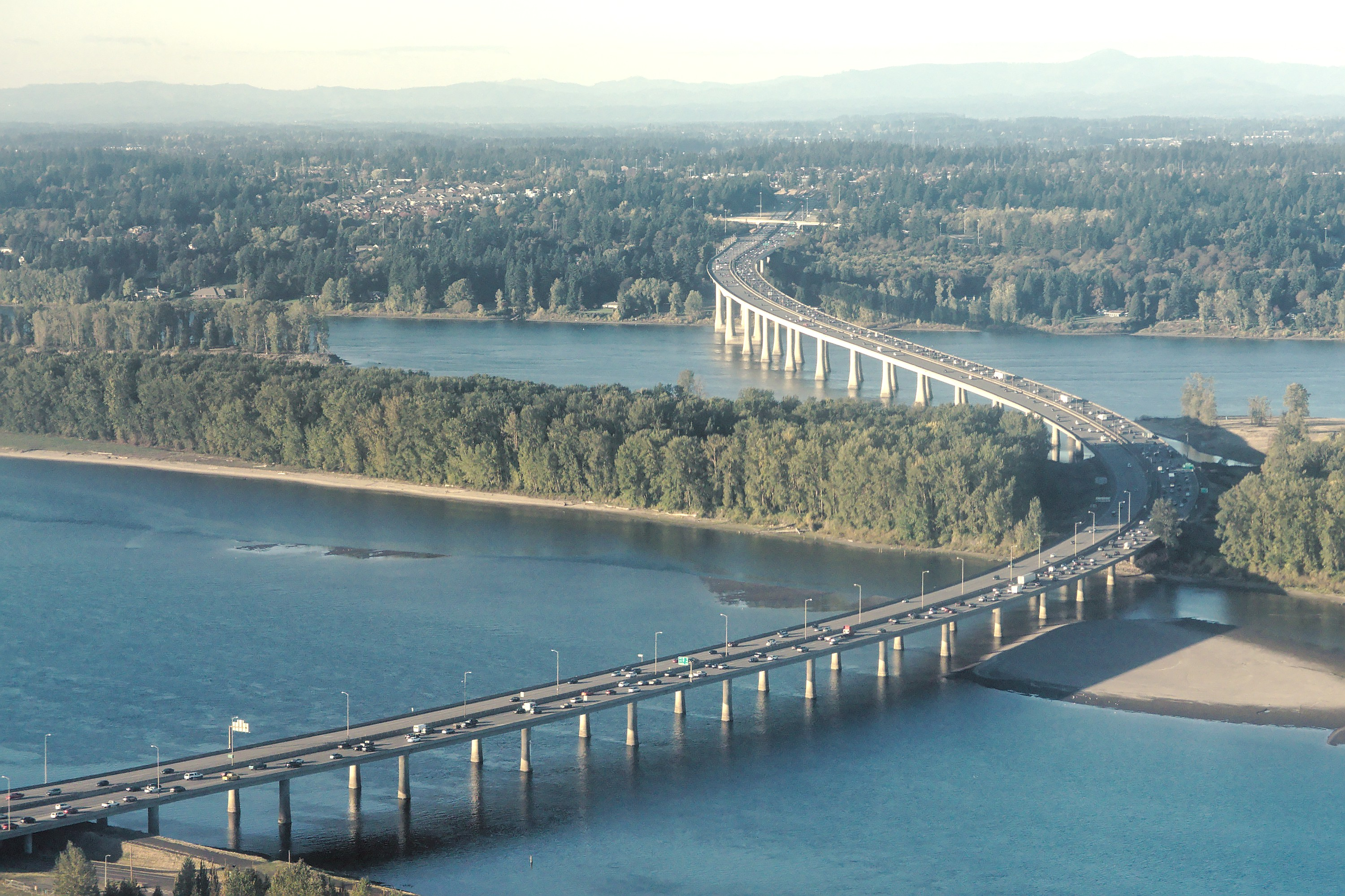 Glenn L. Jackson Memorial Bridge, aerial view from southeast during approach at PDX.